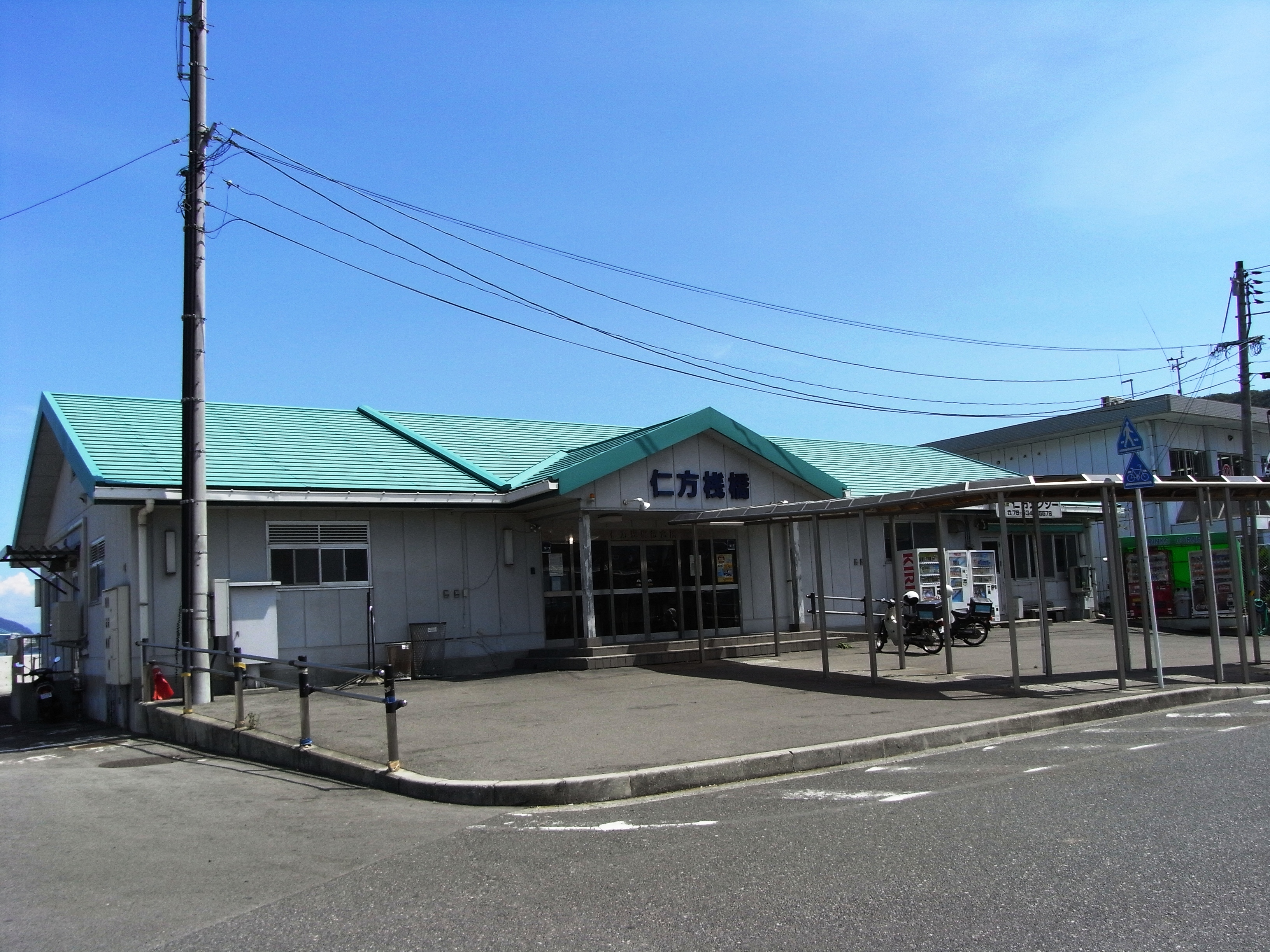 仁方桟橋Nigata Sanbashi at Nigata Station on the JR Kure Line in Kure